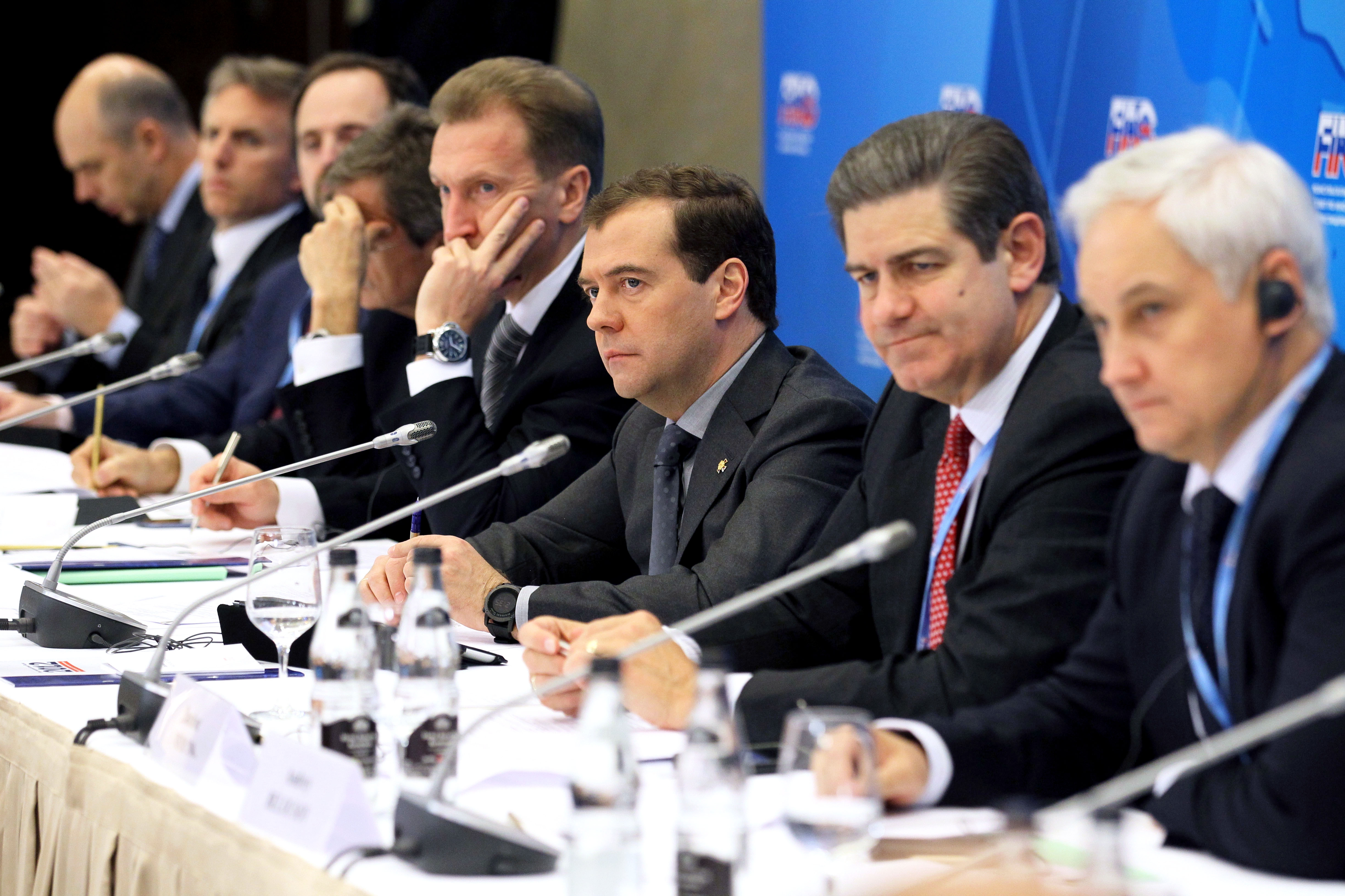 Russian Prime Minister Dmitry Medvedev at the 26th meeting of the Foreign Investment Advisory Council, Hotel Baltschug Kempinski Moscow.